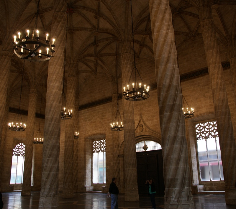 La Lonja de la Seda, Valencia, Spain - hall interior